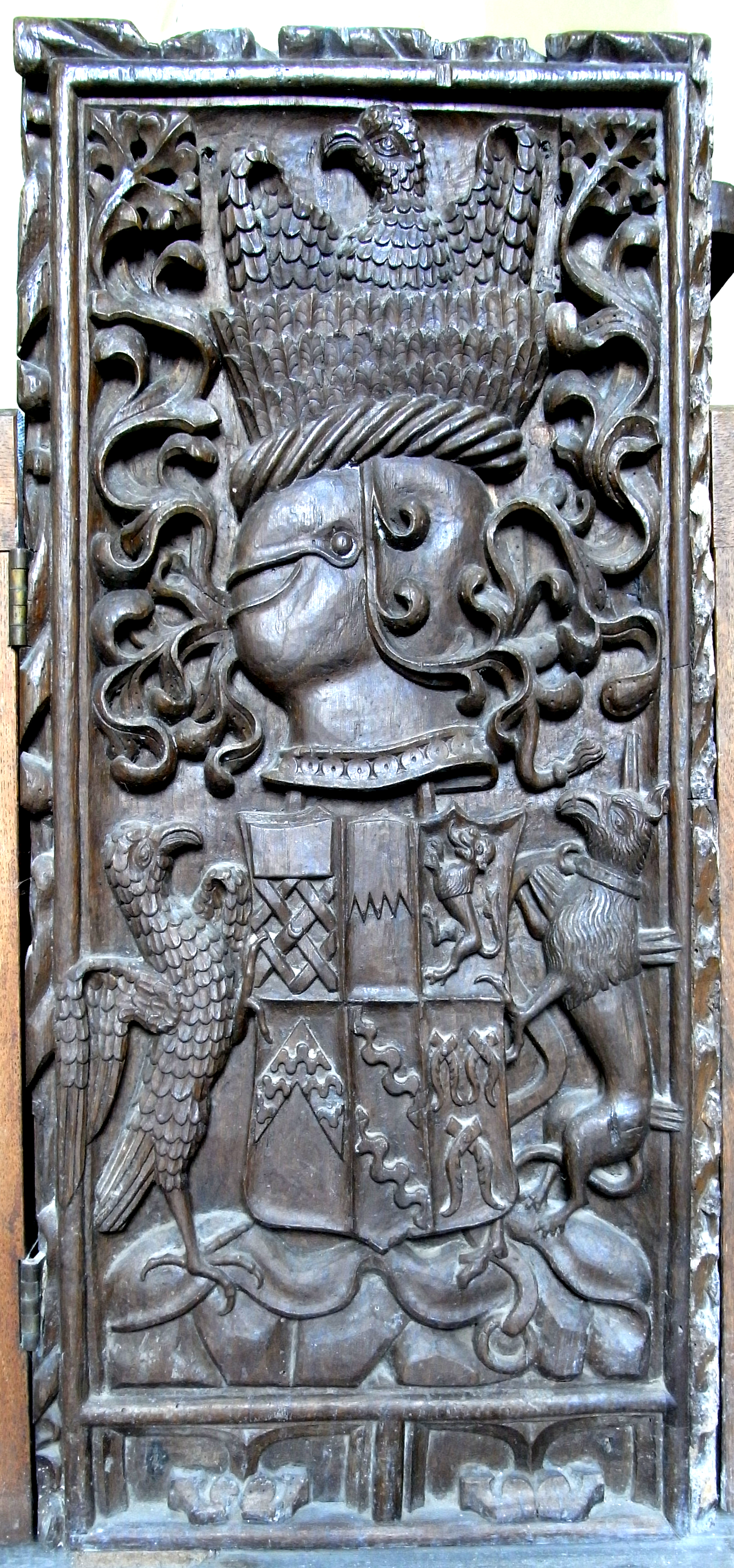 Heraldic bench-end in Monkleigh Church, Devon, showing heraldic achievement of St Leger family of Annery in the parish of Monkleigh: quarterly of 6: 1st:St Ledger of Annery: Azure fretty argent, a chief or,[1] a crescent for difference of a 2nd son 2nd:FitzWarin, feudal baron of Bampton: Quarterly per fess indented argent and gules[2] 3rd: A lion rampant crowned (possibly Turberville) 4th: Hankford of Annery, for Richard II Hankford (c.1397-1431) of Annery, feudal baron of Bampton: Sable, a chevron barry undee argent and gules[3] 5th: Stapledon, for Stapledon of Annery: Argent, two bends undee sable[4] (as visible on monument of Walter Stapledon, Bishop of Exeter in Exeter Cathedral 6th: Argent, three barnacles gules tied sable (Donet of Sileham, Rainham, Kent[5])